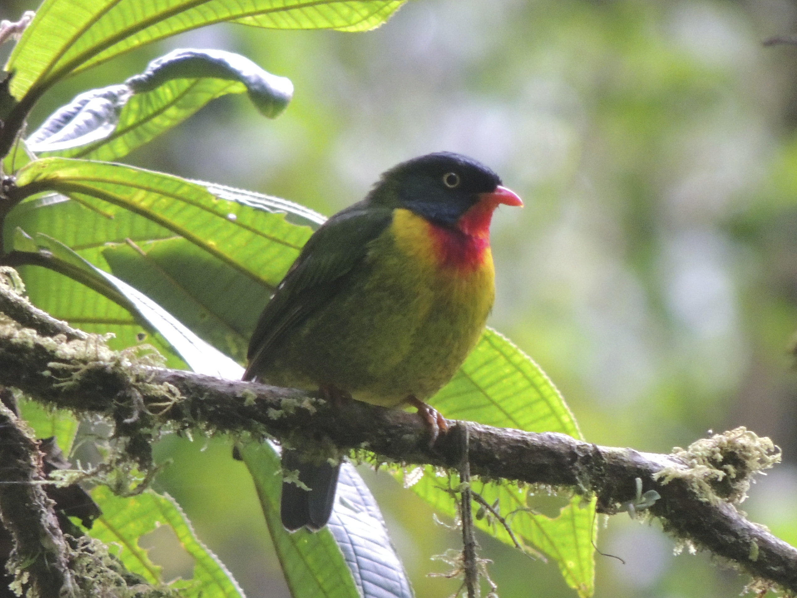 Male Scarlet-breasted Fruiteater, Pipreola frontalis squamipectus along trail at Wildsumaco in Ecuador